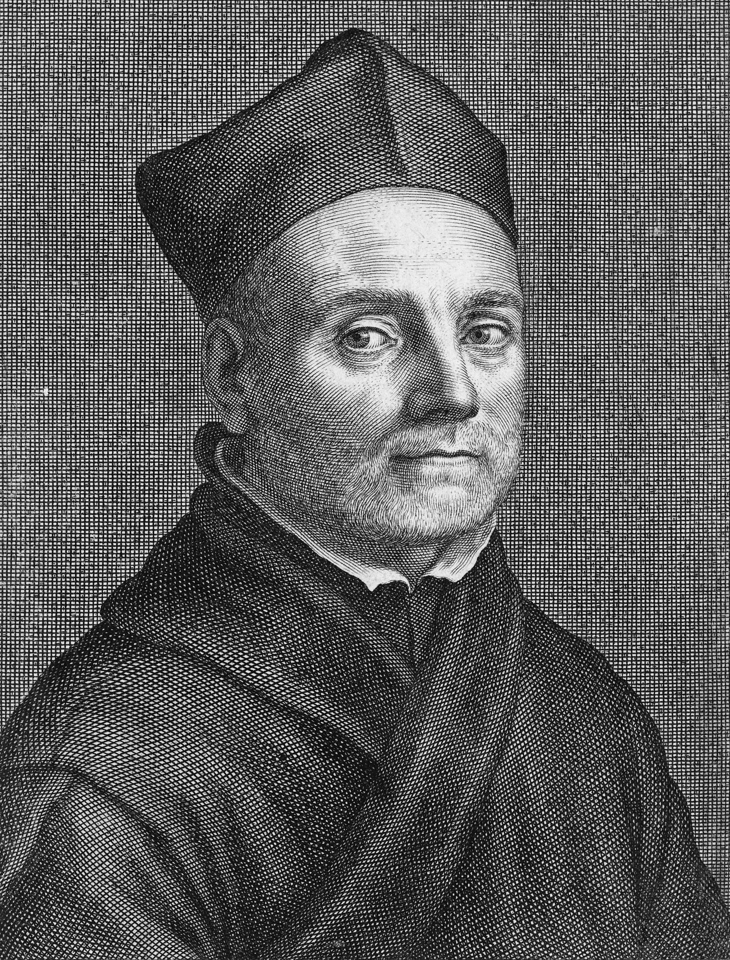 Depicted person: Athanasius Kircher (1602-1680)